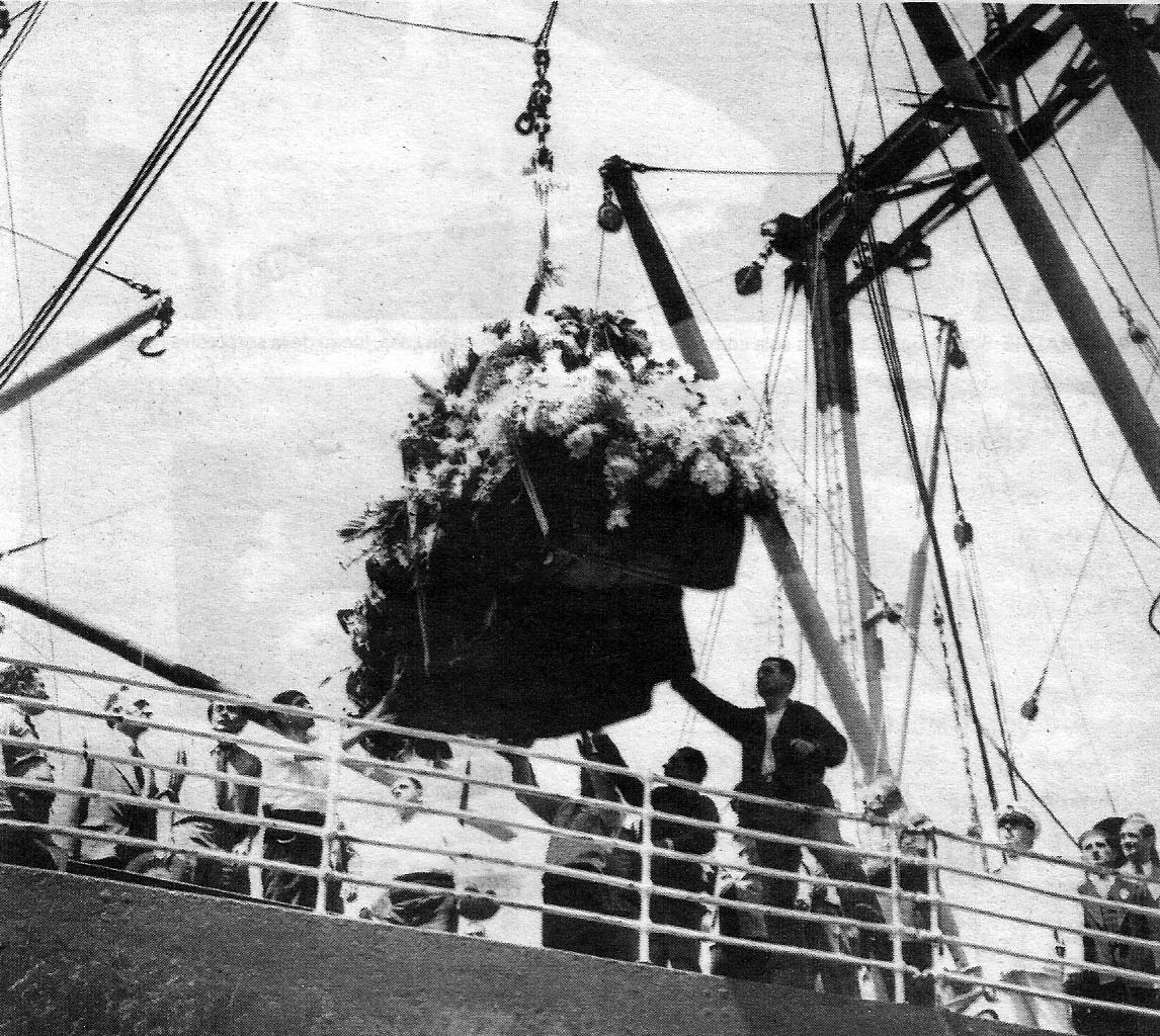 The coffin with the body of Argentine singer Carlos Gardel when arriving to the port of Buenos Aires to be buried there.